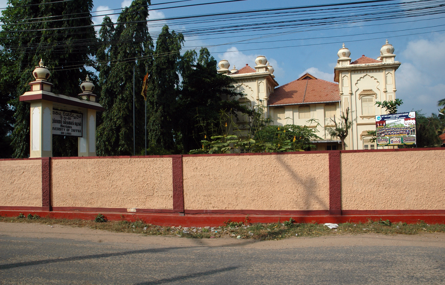 Entrance of University of Jaffna, Sri Lanka